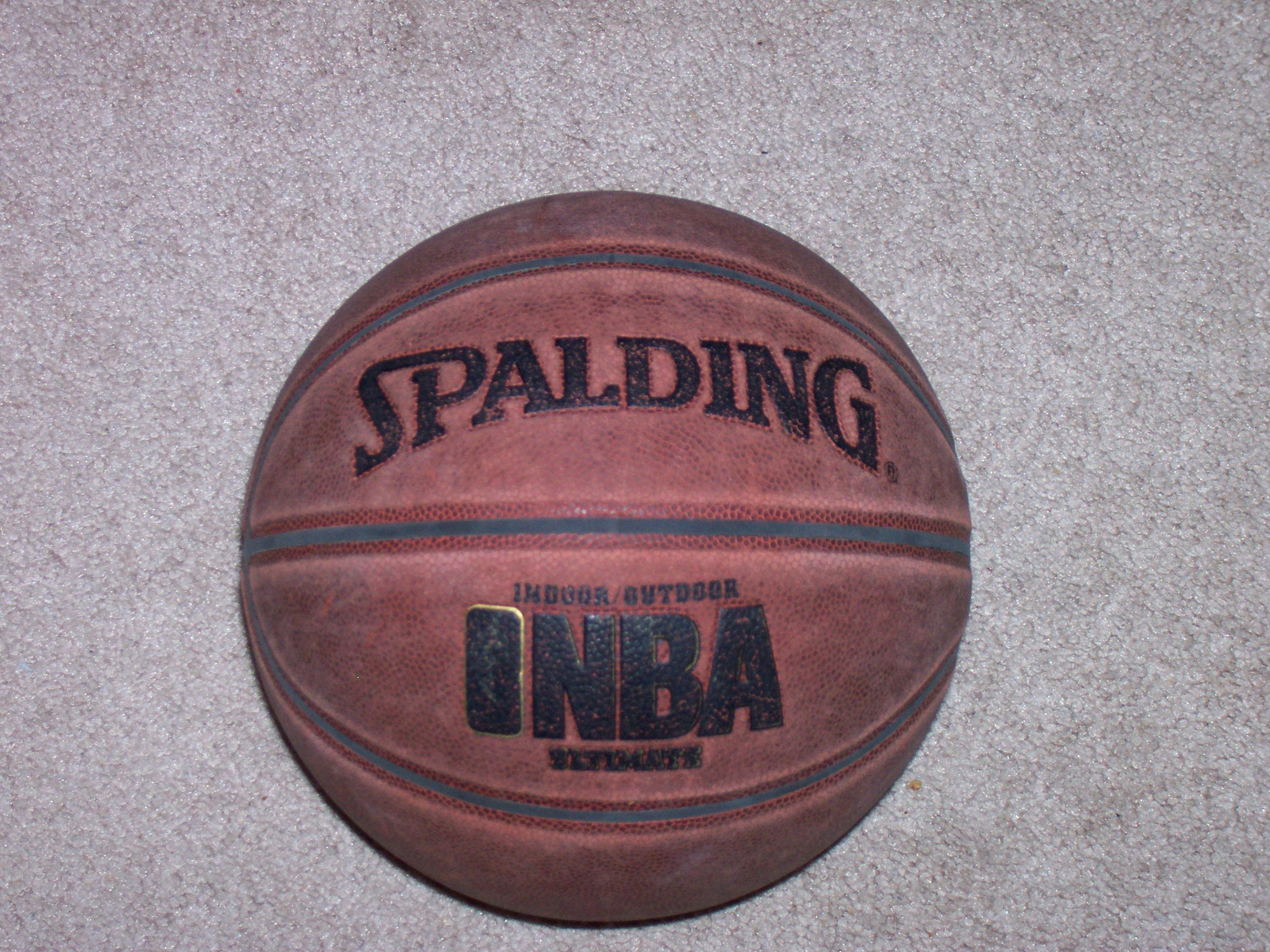 Picture of a Spalding Basketball